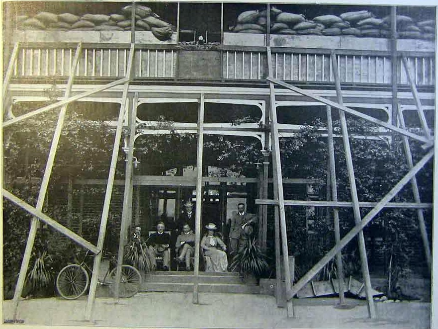 Cecil Rhodes posing at the Sanatorium where he resided during the Siege of Kimberley. The building has been fortified to protect it against Boer shelling.